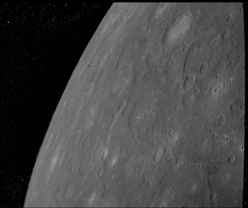 Image Number: 0027253GMT: 1974:088:17:48:02Start Time: 1974-03-29T17:48:02.364ZLatitude: -5.17° to 27.8°Longitude: 35.67° to 83.16°Resolution (meters per pixel): 1000Incidence Angle: 45.26°Emission Angle: 65.3°Phase Angle: 102.07°Lermontov crater near top. Giotto and Chaikovskij near center. Mistral near bottom. Haystack Catena is visible, as is western half of Homer crater.